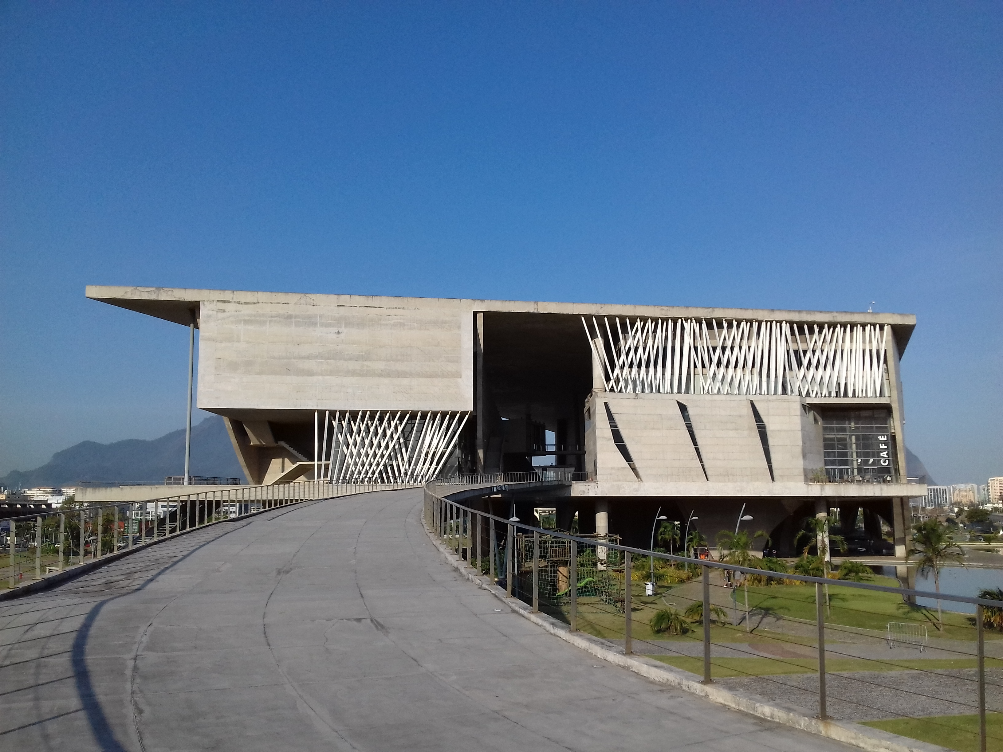 Cidade das Artes in Barra das Tijuca, opened on 3 January 2013, it is one of the most important art centers in Rio de Janeiro